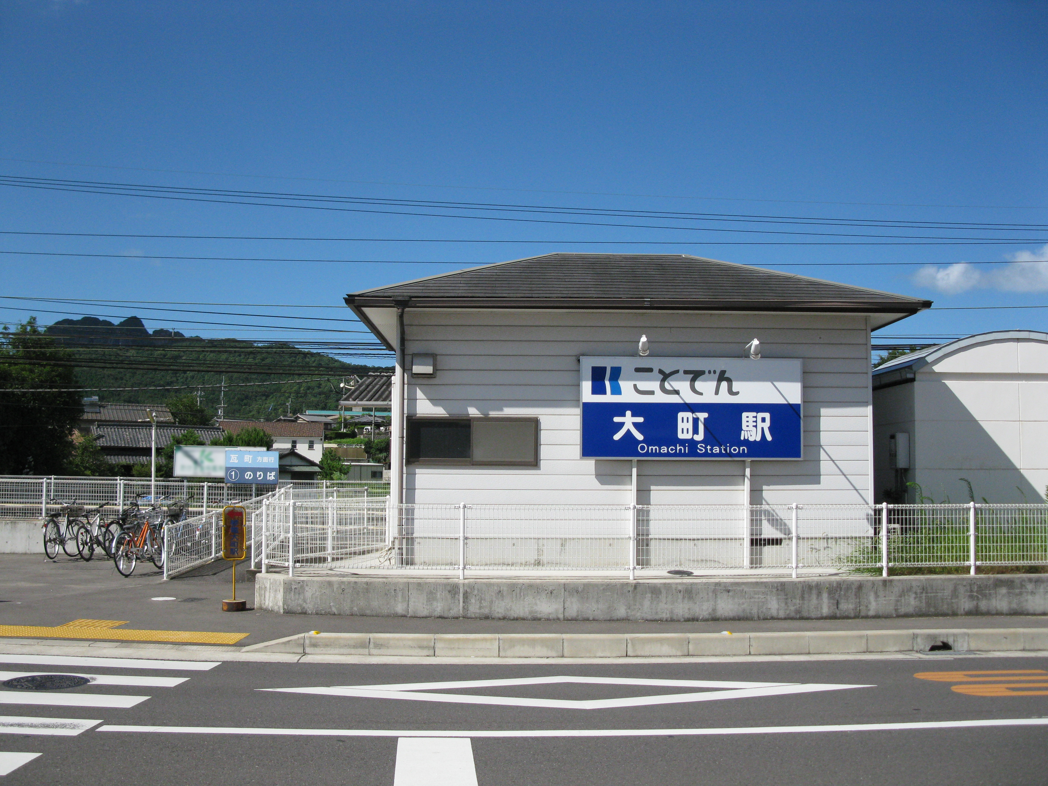 Ōmachi Station entrance (Takamatsu-Kotohira Electric Railroad(Kotoden) Shido Line)